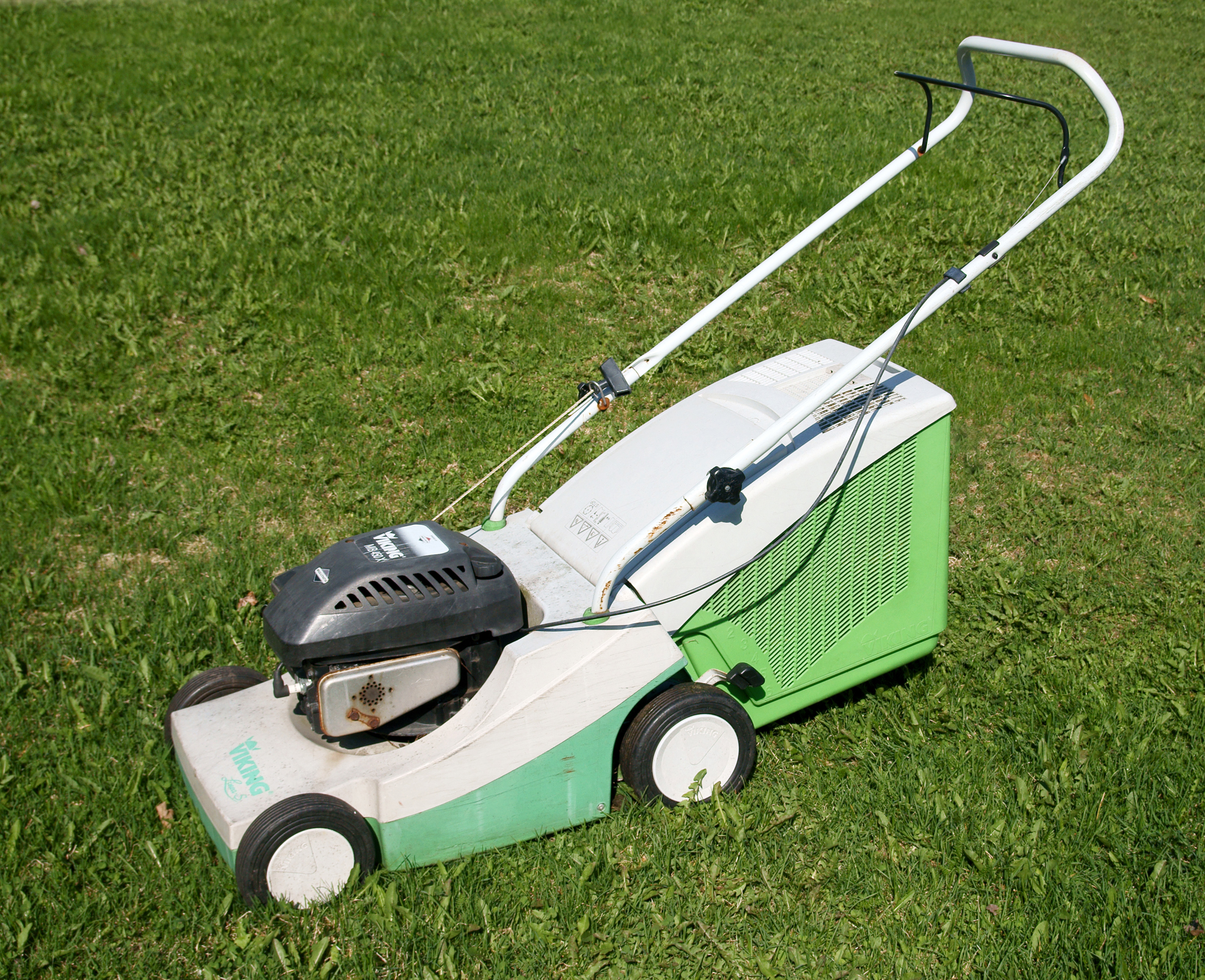 Viking lawn mower.